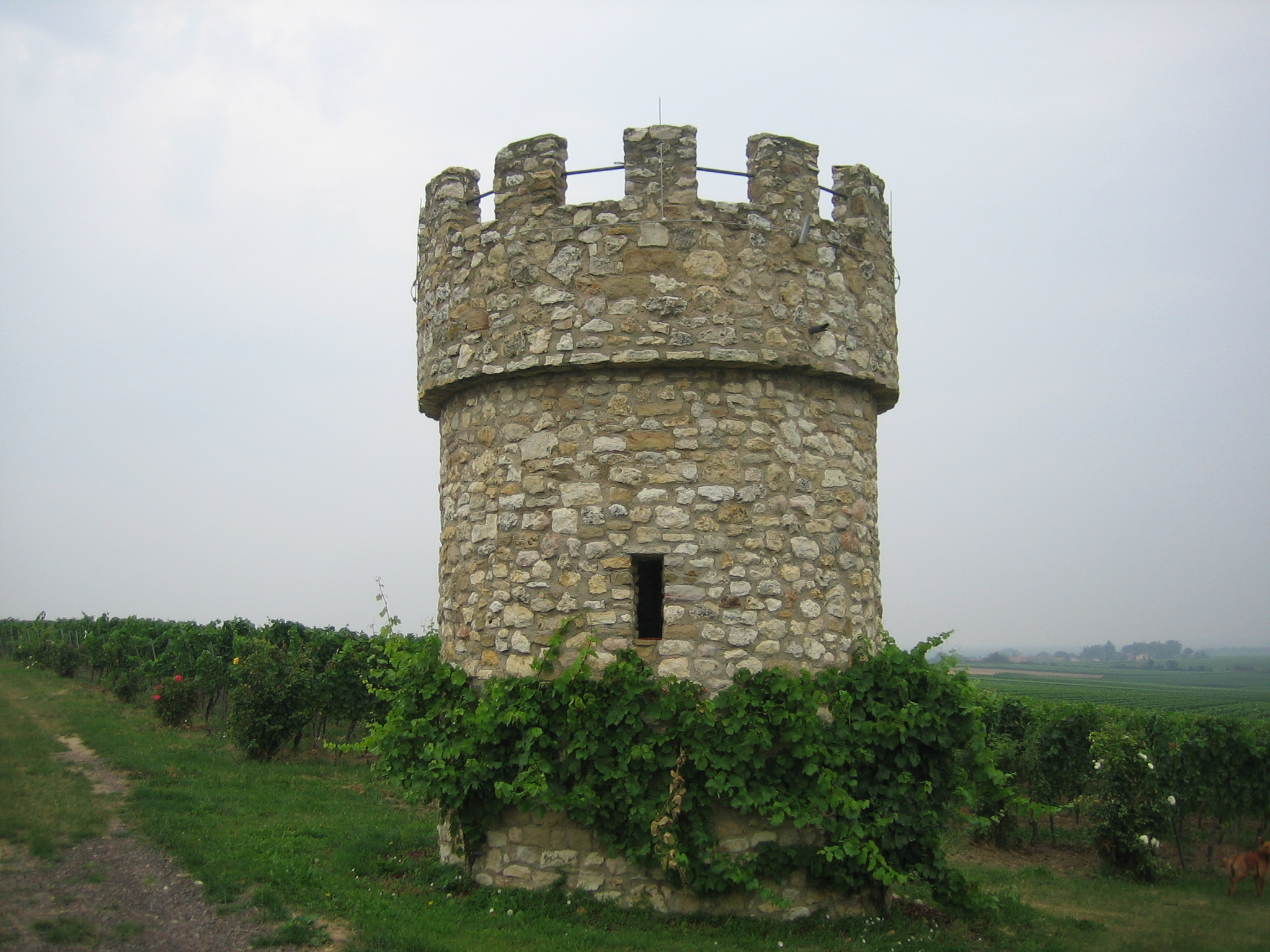 The "Dalsheimer Hubacker" Memorial tower